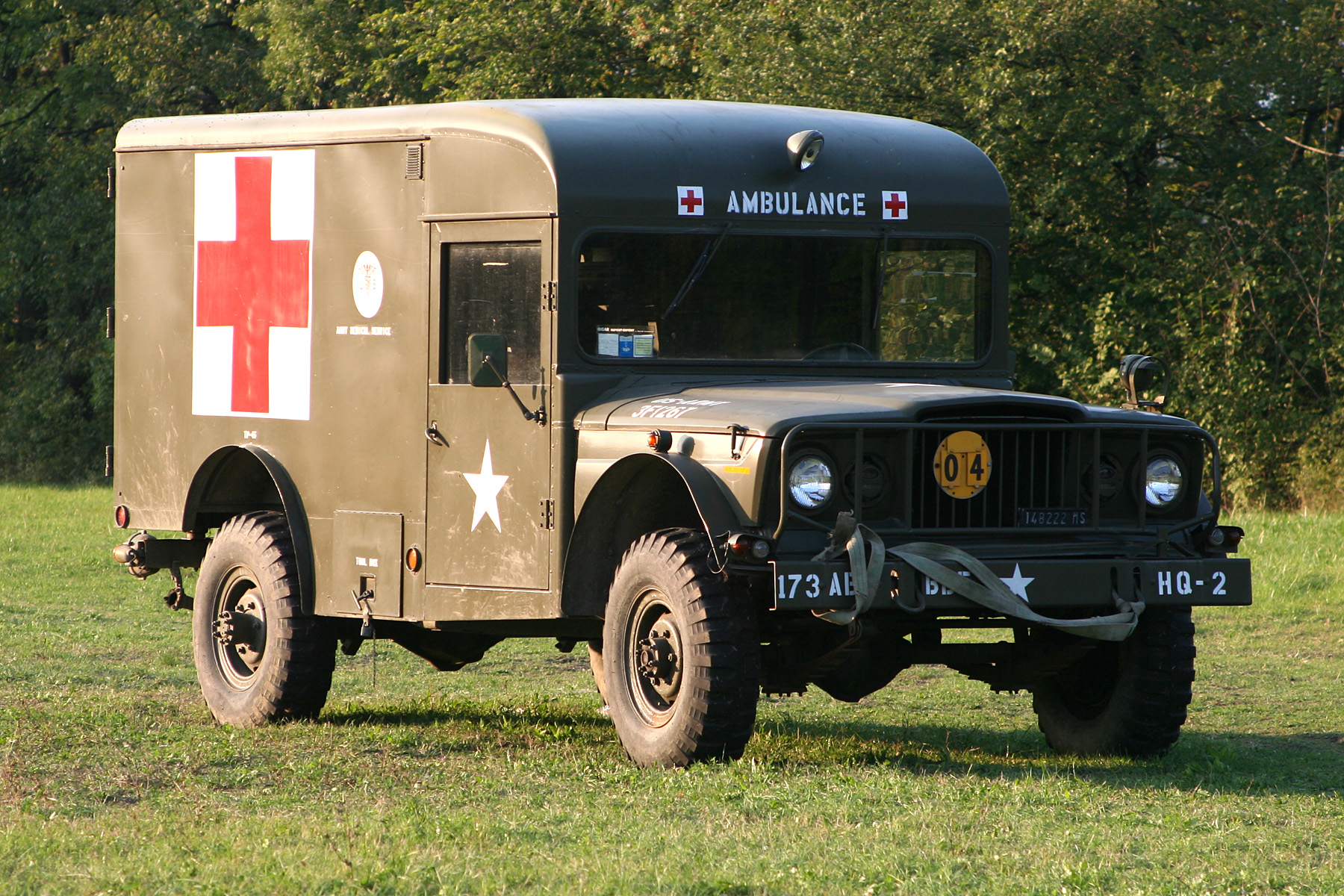 Military ambulance Jeep M725 in Sassuolo (MO), Italy.